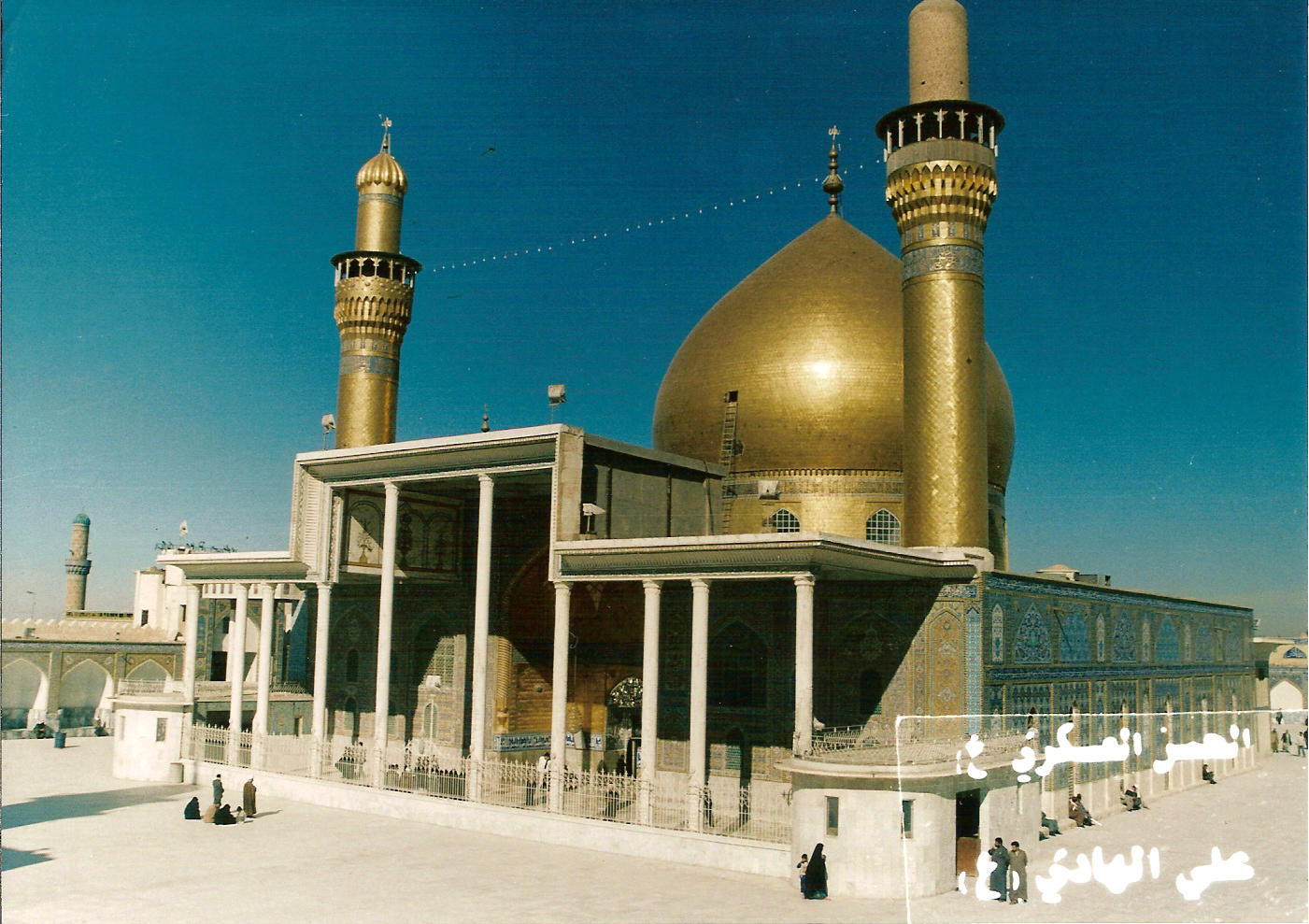 Al Askari Mosque - Shrine of the 10th and 11th Shia Imams: Ali an-Naqi & Hasan al-Askari - Before the bombing in 2006, Samarra, Iraq.